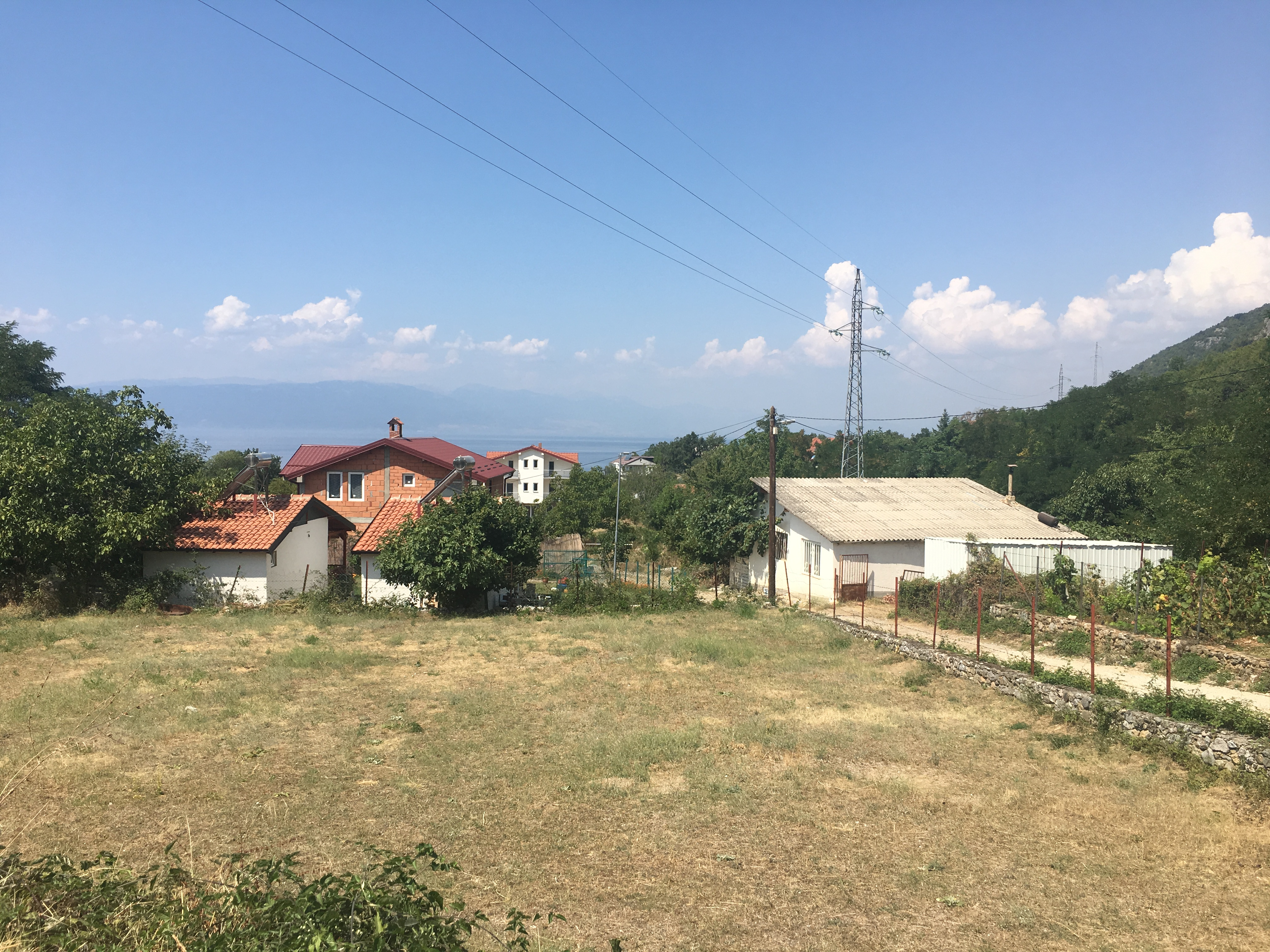 A view of the tourist settlement Elešec